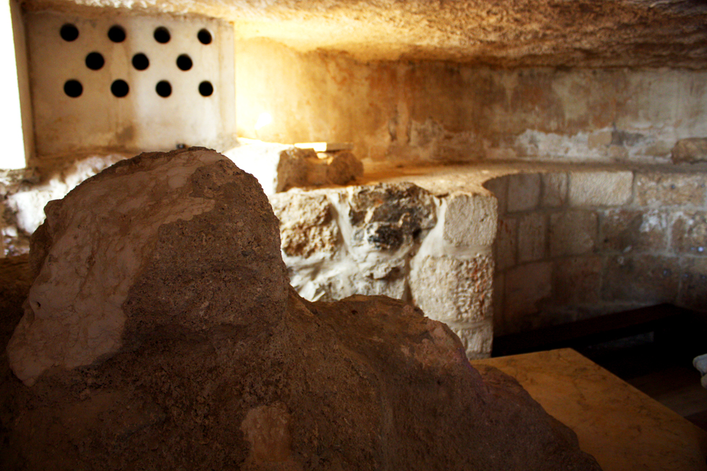 This grotto traditionally believes as the place where Jesus taught the Lord's Prayer